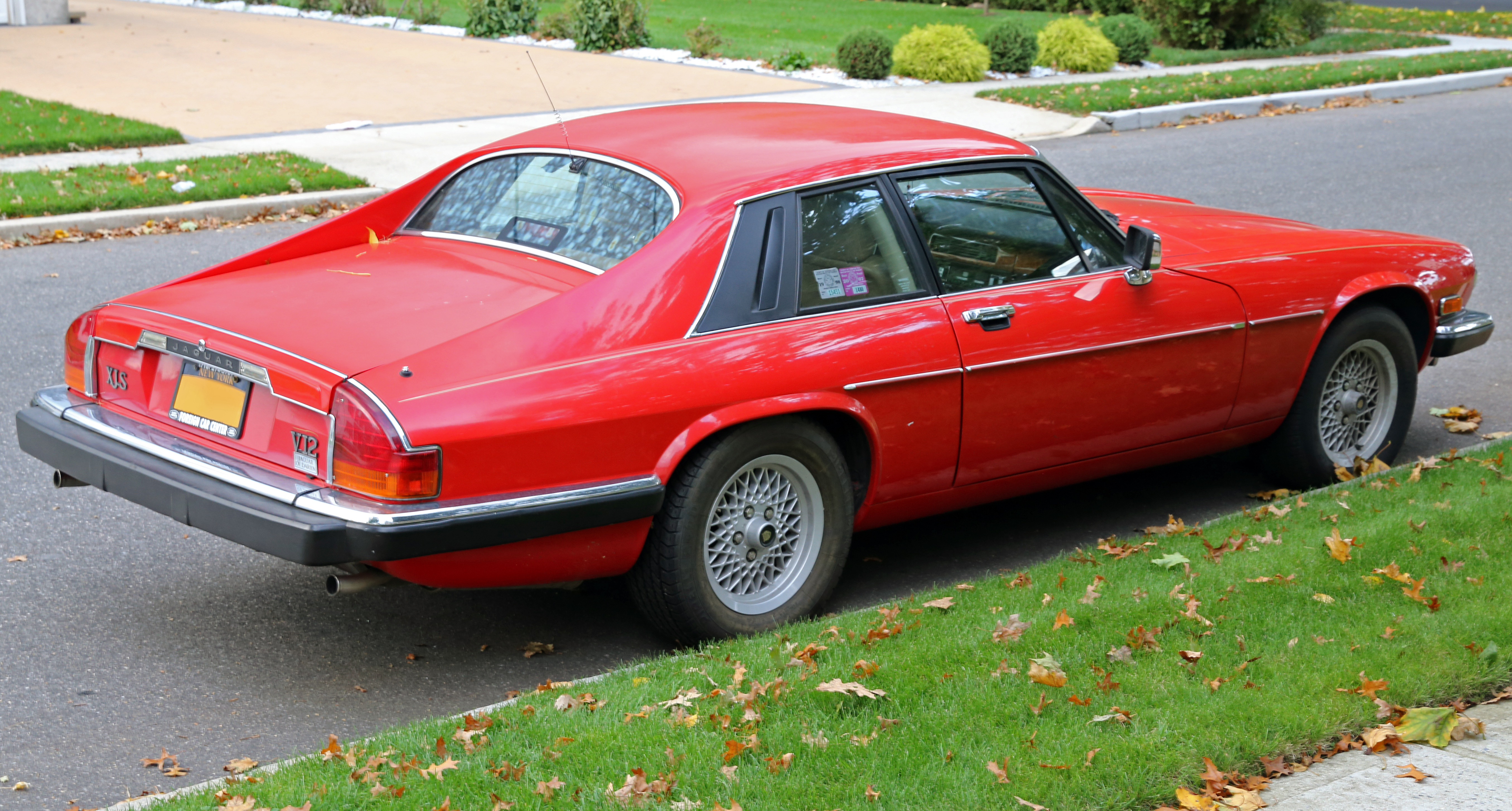 A 1989 Jaguar XJ-S V12 Coupé, federalized (North American) specifications.